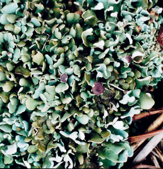 Cladonia sobolescens Nyl. ex Vainio, 1892 Photographed in the field. The photo shows very short podetia that barely rise above the primary squamules. This colony of Cladonia sobolescens was growing on soil near the metal gate on the S side of Wards Chapel Road at the Soldiers Delight Natural Environment Area, Baltimore County, Maryland, USA (N 39o25.130' W 76o50.478').